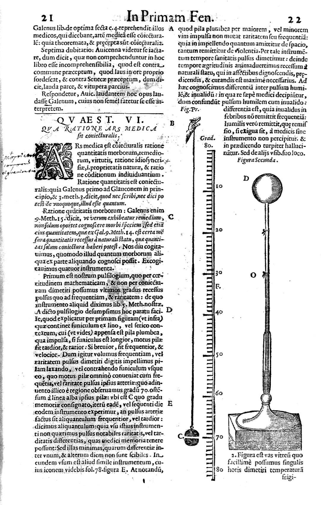 Figure 1: pulsilogium, line with weight tied to finger. Figure 2: thermometer Rare Books